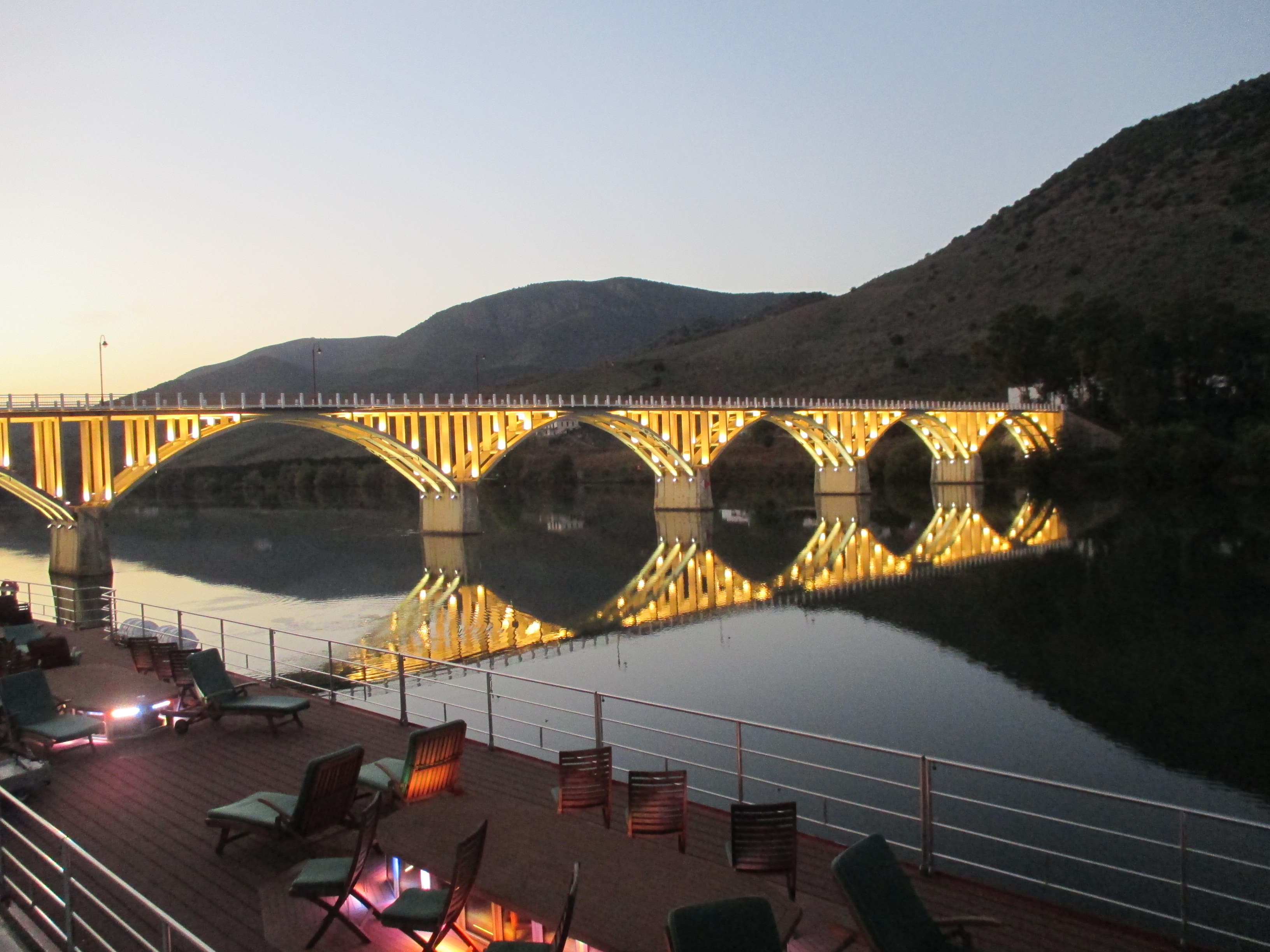 Barca d'Alva. The Ponte da Barca d'Alva bridge at night. The Spirit of Chartwell in the foreground. portugal douro riodouro riverdouro 2014 mvdouroprince